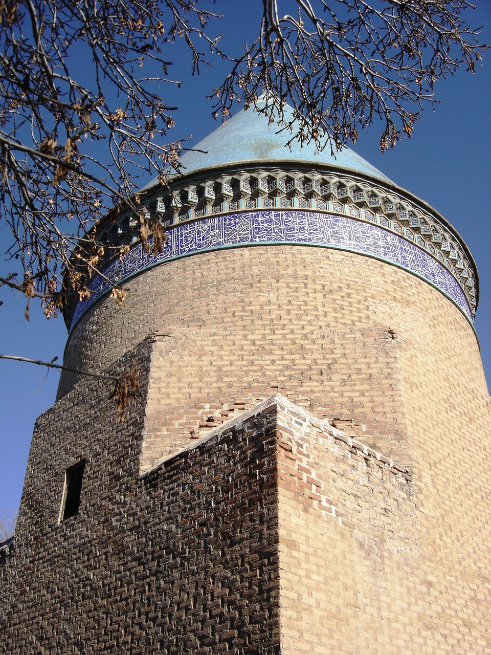 Mausoleum of Hamdollah Mostowfi. Qazvin, Iran.